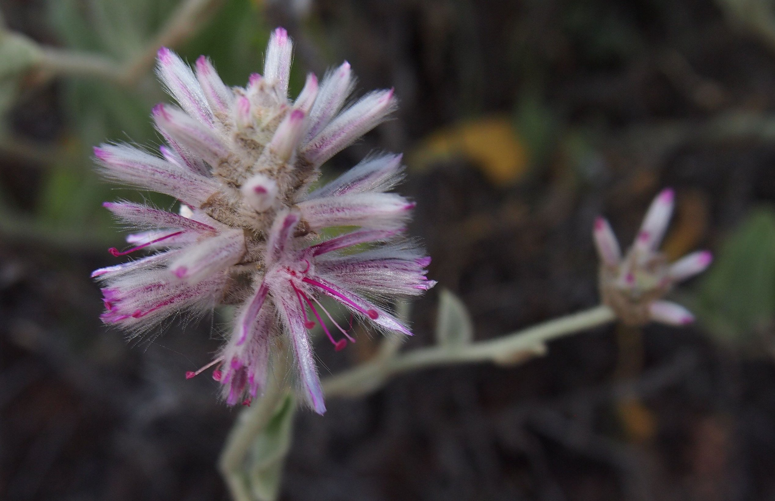 Ptilotus sessilifolius habit